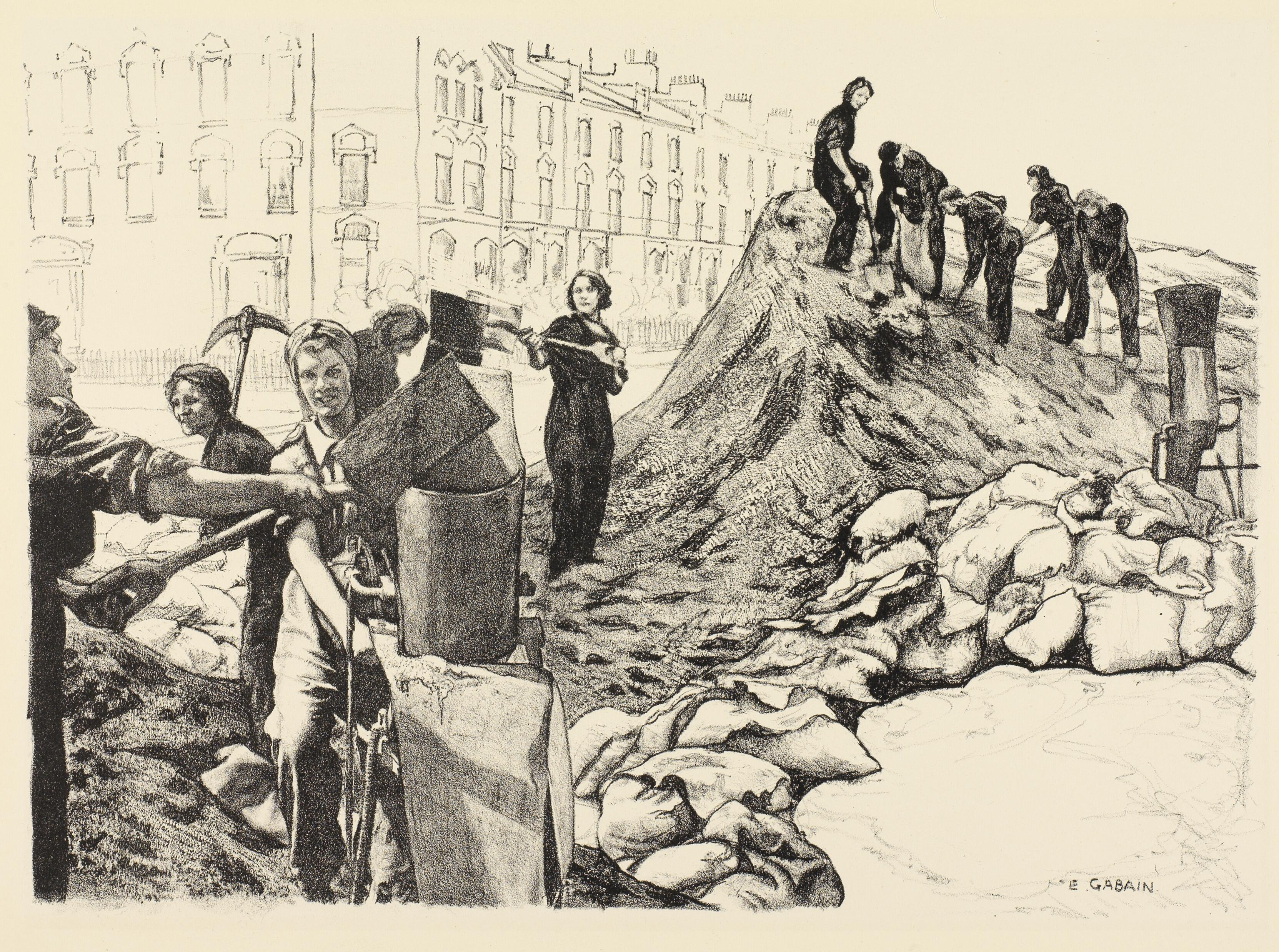 The Islington Borough Council have employed women on this strenuous task. On the left, wielding a pick, is Mrs Kellam, forewoman, a grandmother who is not afraid of hard work and responsibility. Her daughter, Edith, is working the chute in the foreground.' (from portfolio notes, Women's Work in the War) image: A group of women in dark overalls working in a residential street. There is a large mound of sand on the road that the women are using to fill sandbags; a pile of which lie in the left hand corner of the image. To the left there is a women with a pick and another manning a chute used to funnel the sand into the bags. Many of the other women hold spades.